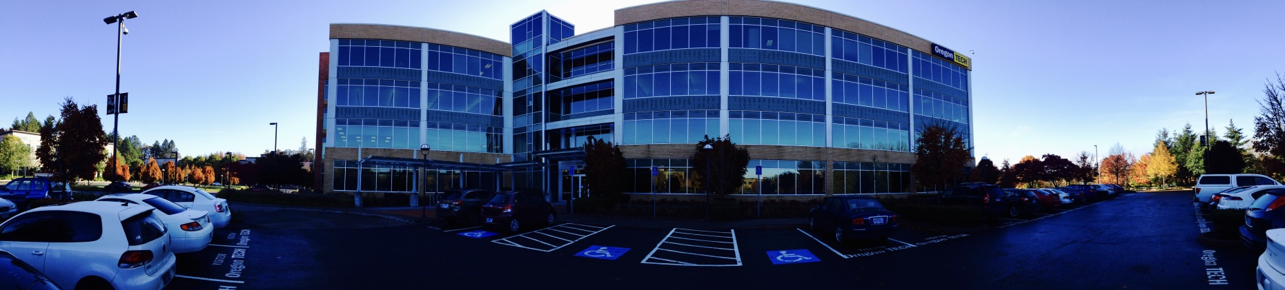 A wide angle lens view of the main Oregon Tech Wilsonville campus